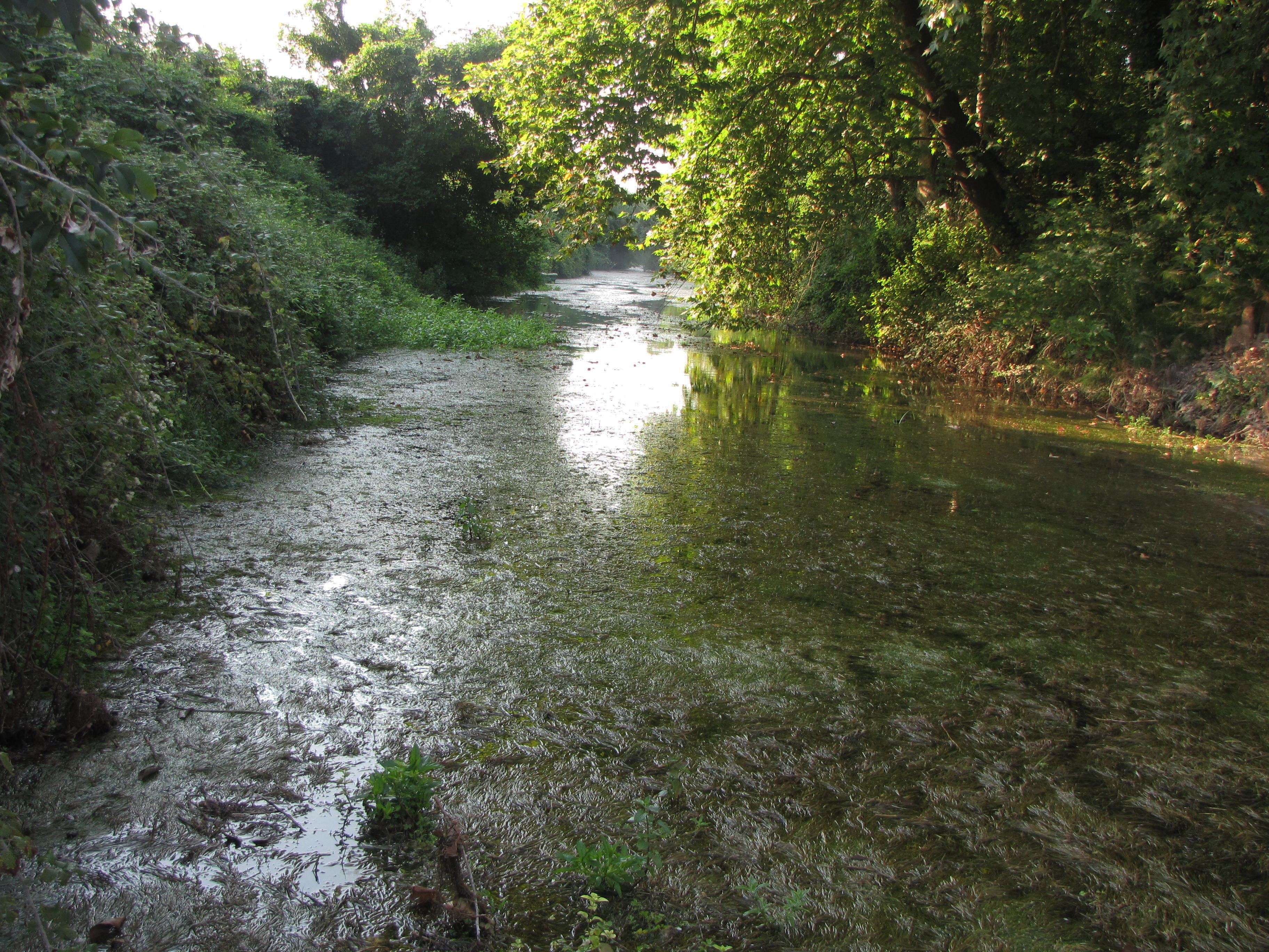 Dion Baphyras